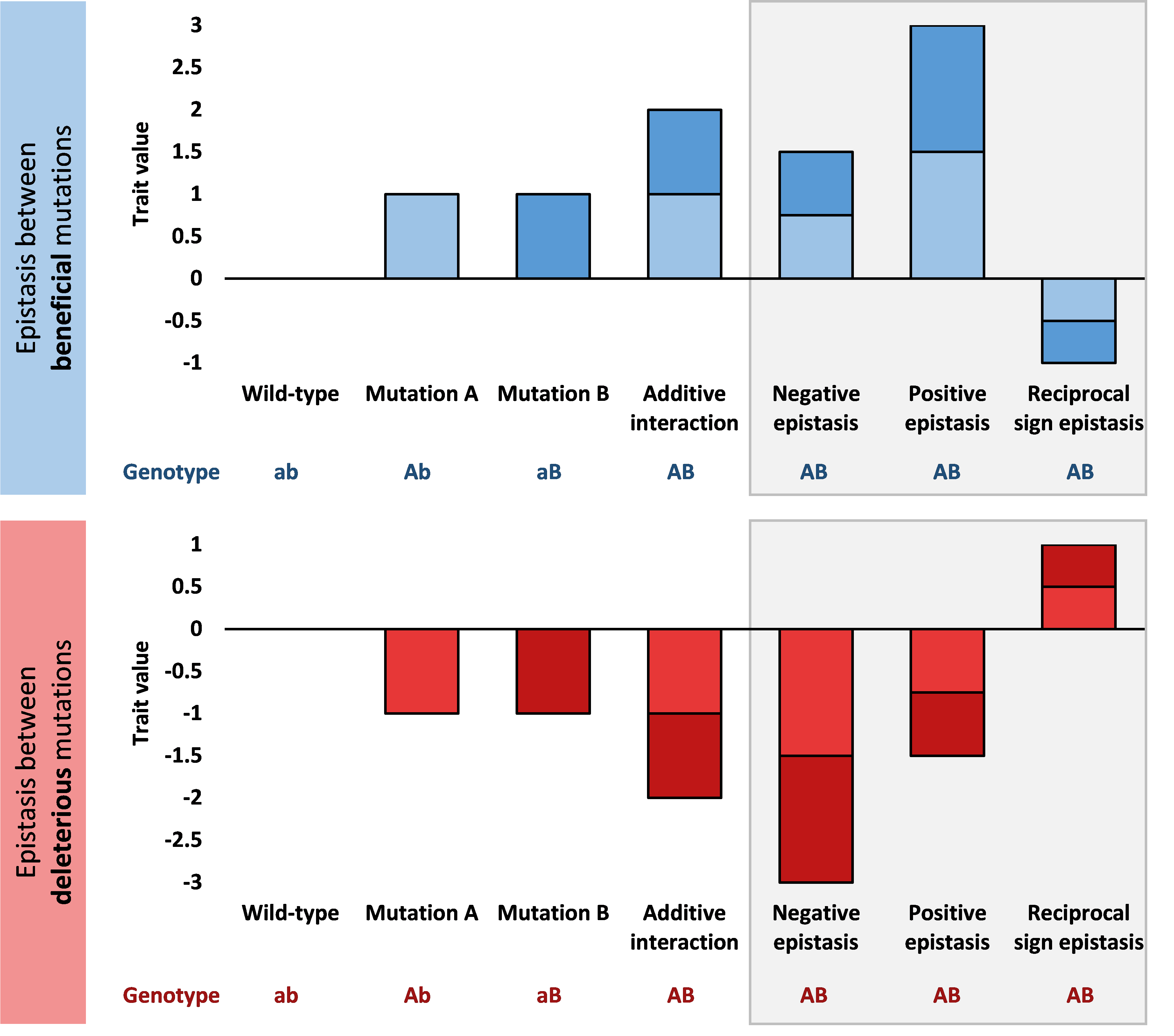 Quantitative trait values after two mutations either alone (Ab and aB) or in combination (AB). Genotype is indicted below in blue. Bars contained in the grey box indicate the combined trait value under different circumstances of epistasis.